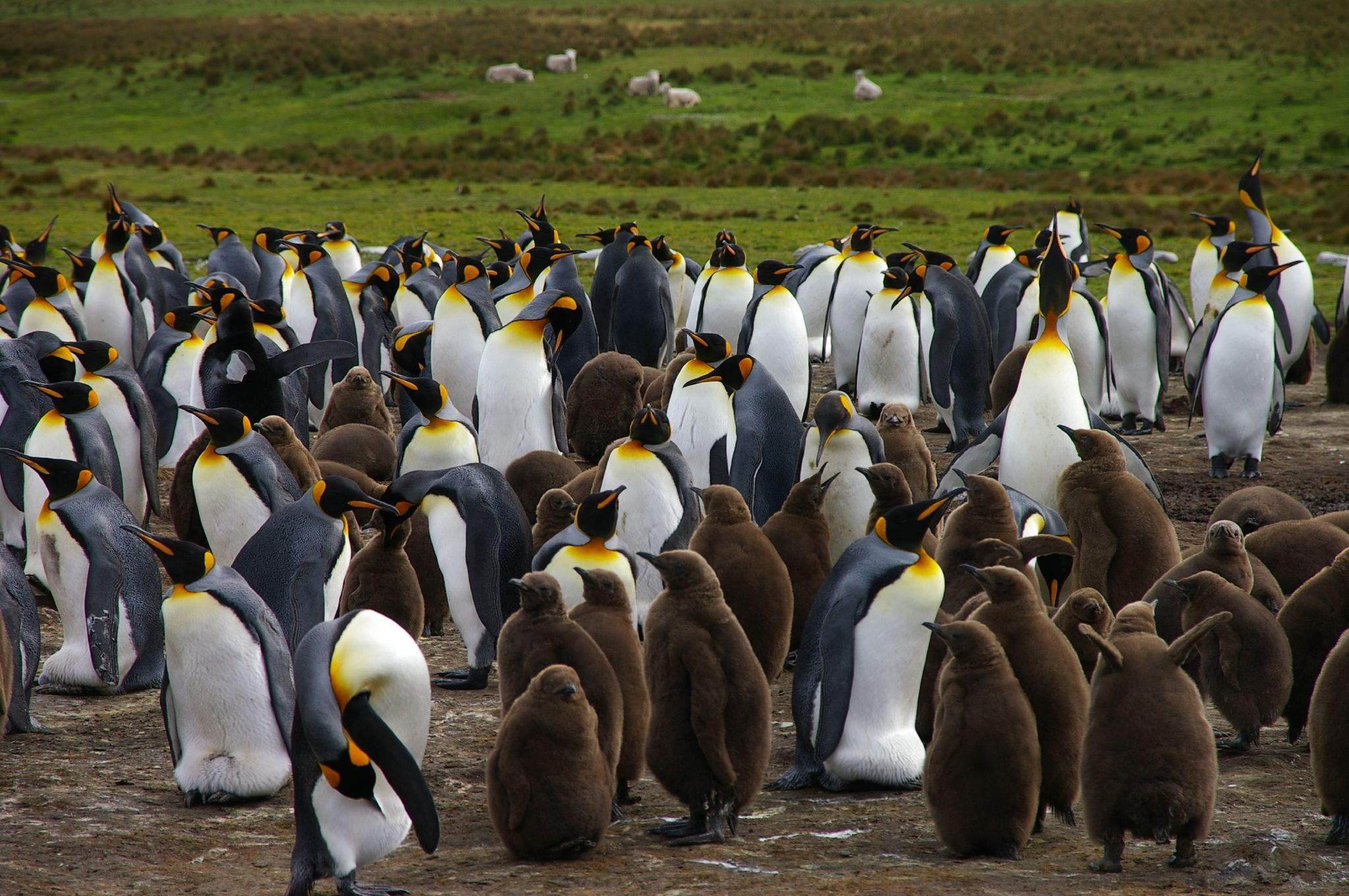 King Penguins (Aptenodytes patagonicus patagonicus), East Falkland